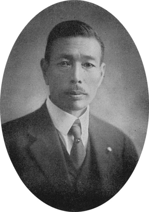 Yasuji Akiho, current director of the Tokyo Science Museum.